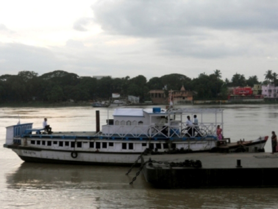 The ferry service between shyamnagar and Bhadreshwar.